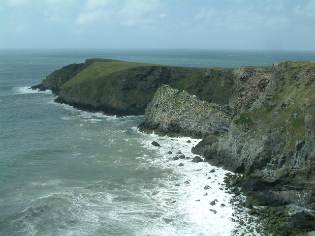 Castell Coch, Trefin, Pembrokeshire